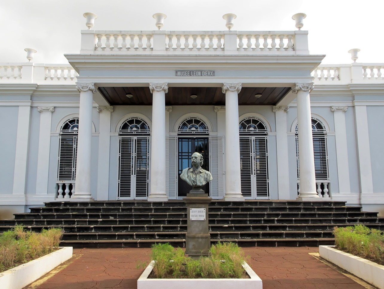 Saint-Denis: Museum Léon Dierx